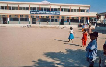 HPS lachyan